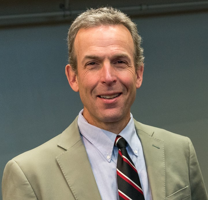 Photograph of K. Christopher Garcia, PhD., Professor, Younger Family Chair Howard Hughes Medical Institute Depts. of Molecular and Cellular Physiology, and Structural Biology Stanford University School of Medicine